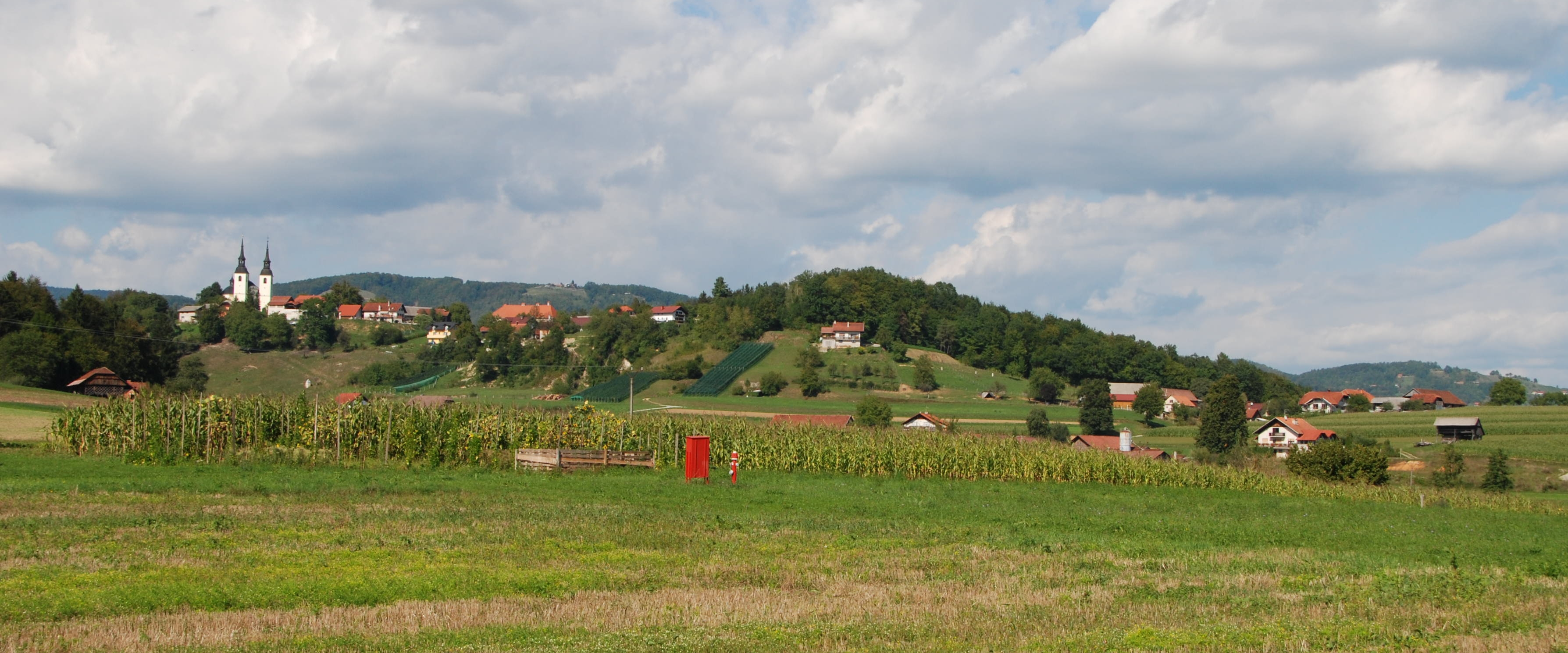 Vesela Gora, a village in the Municipality of Šentrupert, southeastern Slovenia.